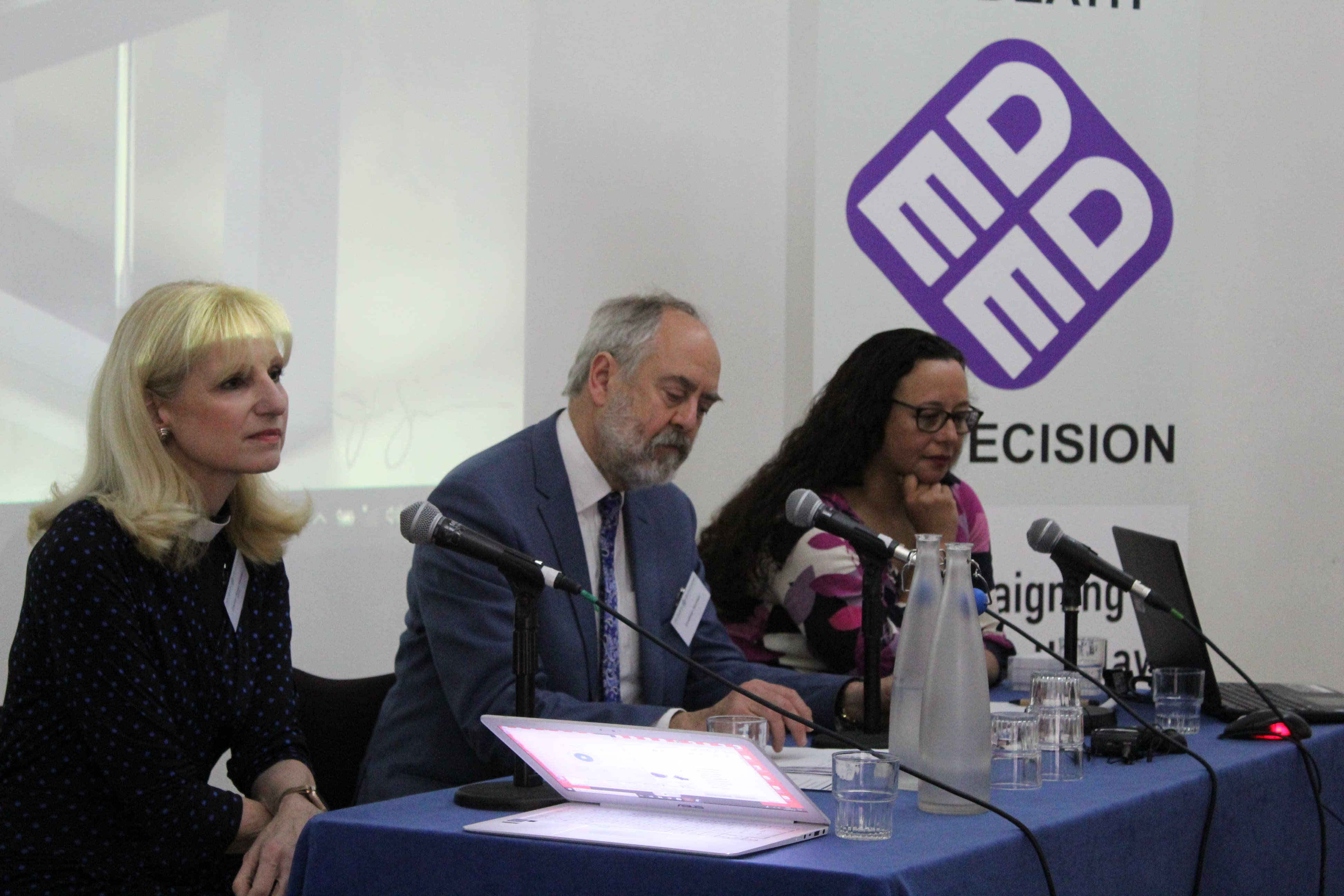 My death my decision and friends at the end faith and assisted dying lecture